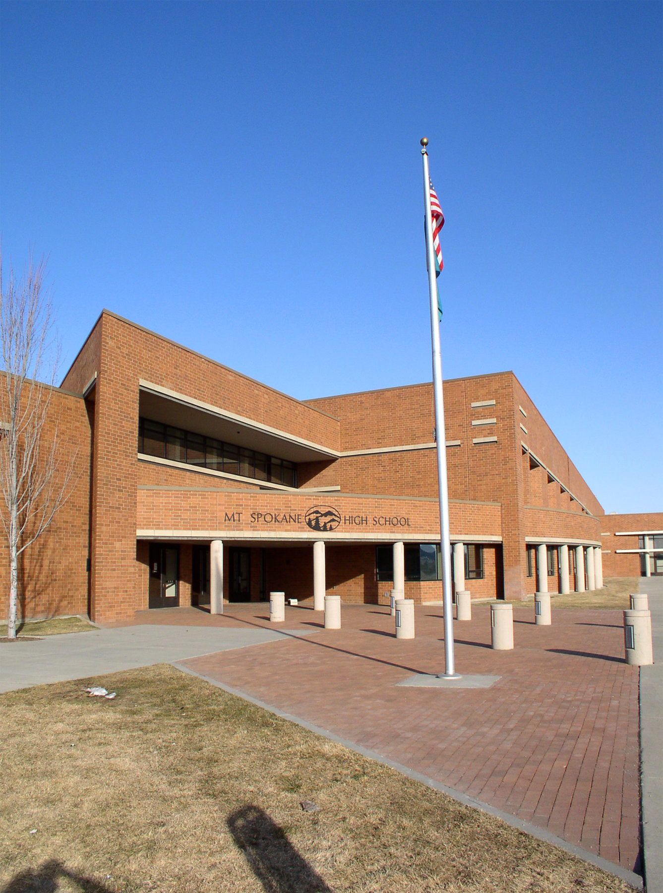 View of the Main Entrance to Mt. Spokane High School